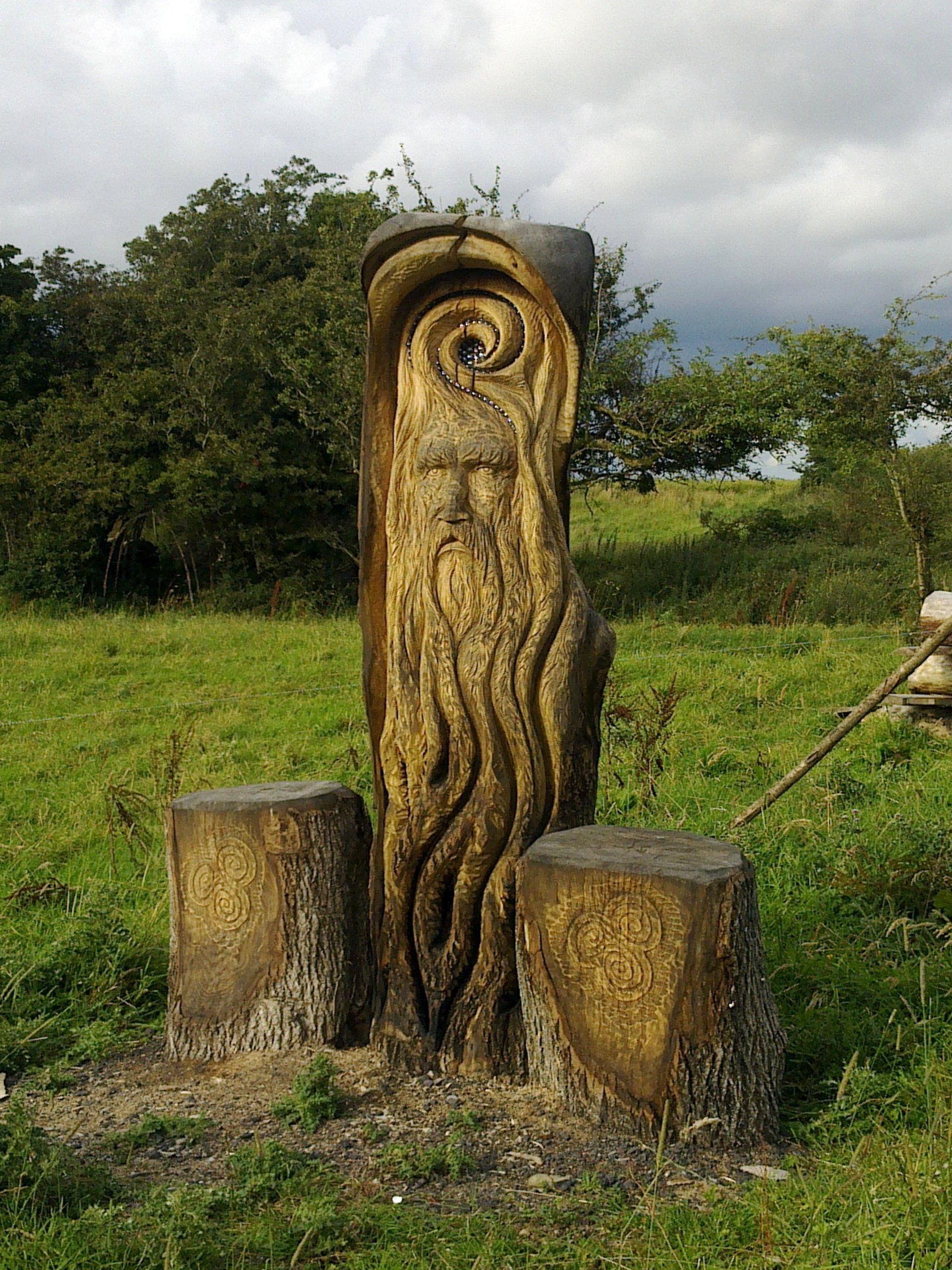 Site of Celtic Festival of Bealtaine, sacred centre of Ireland in Pagan times, the orginal throne of the high Kings of Ireland, where St.Patrick and St Bridget passed through, it's also a pre-christain druids place of worship, and it also hosts The Festival of Fire. From the peak of the hill you can see on a clear day into 20 of the 26 counties in Ireland, its just 5 miles outside Ballymore, and 1 mile from Killare